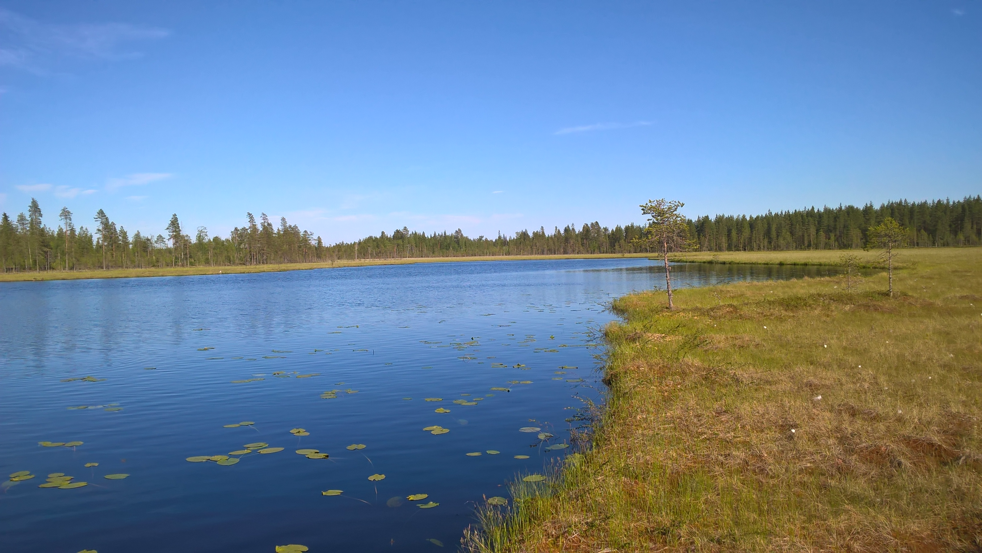 The biggest of the three small lakes named to Peuralammit in the South-Western corner of the Puolanka municipality, in Finland.